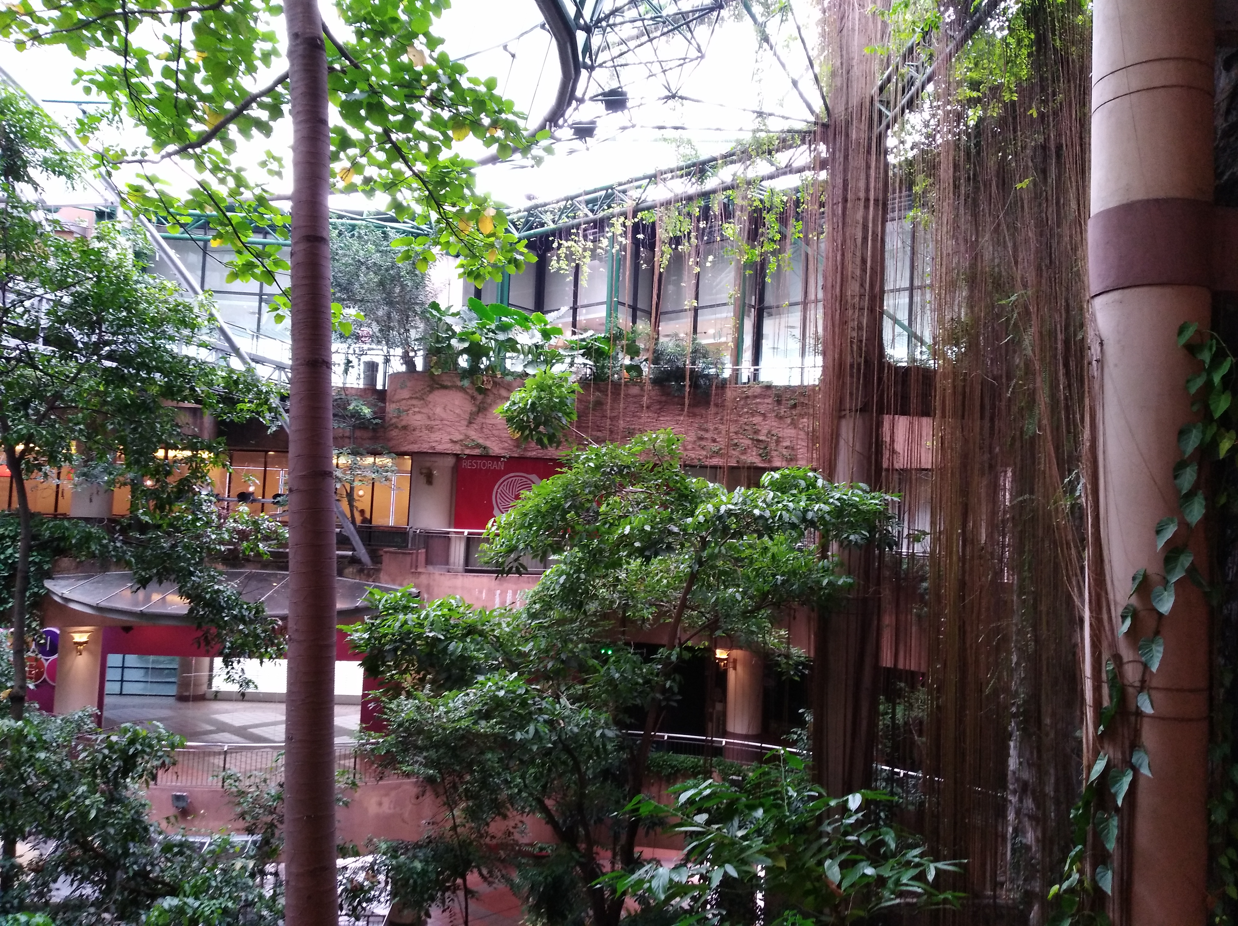 Taken during my Raya trip to KL.